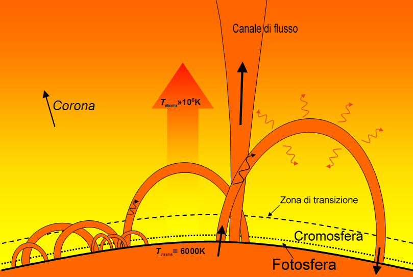 Italian translation of Image:Cartoonloops.png